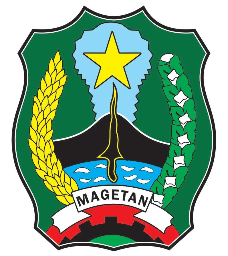 Coat of arms of Magetan Regency, East Java